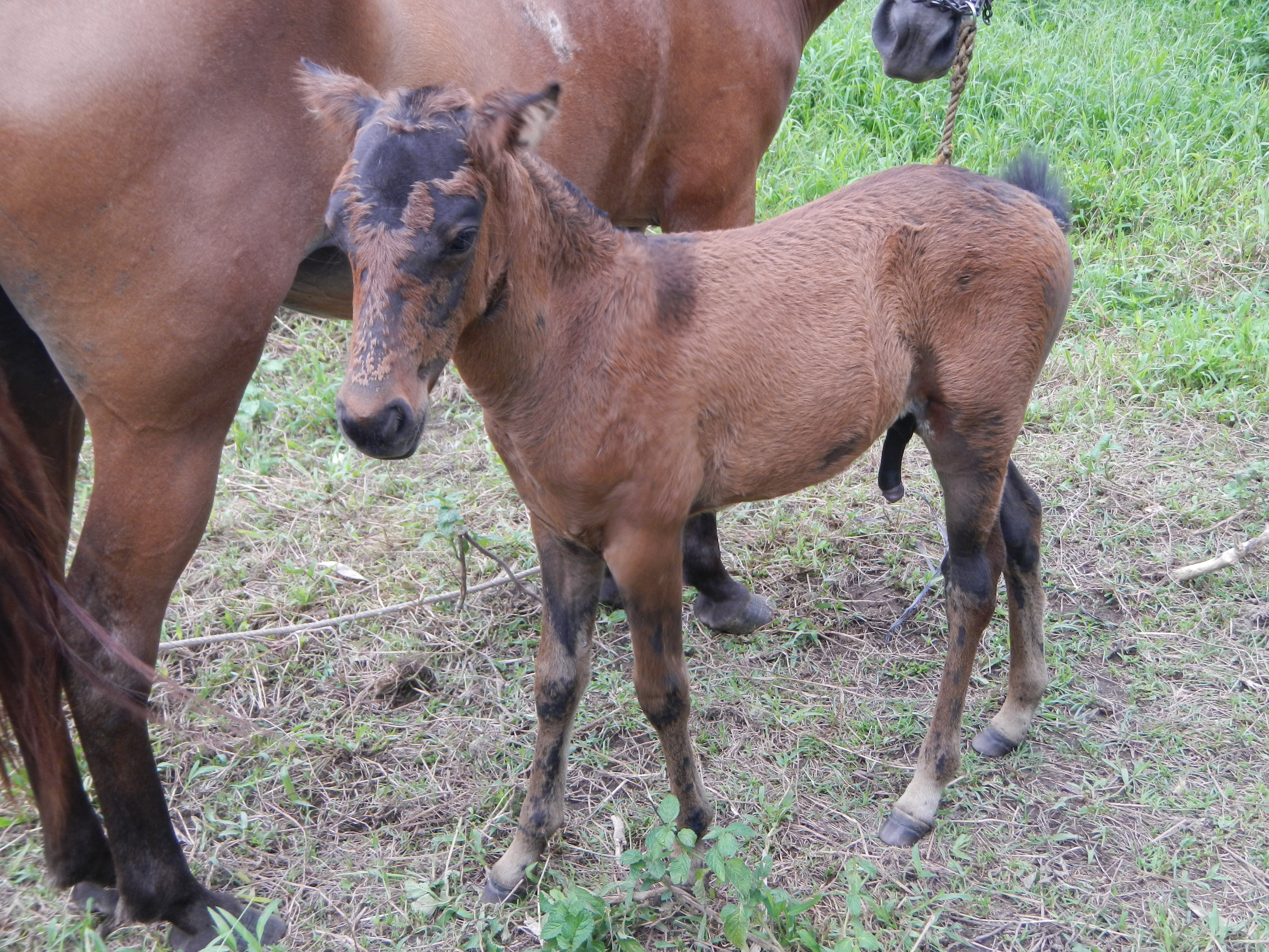 UploadWizard of Barangay Paule 2 Rizal Re-Creation Center Arban Street, First Church of Christ [1], Pook Elementary School, Rizal, Laguna[2] is a fifth class municipality in the province of Laguna, Philippines. It is a landlocked municipality.